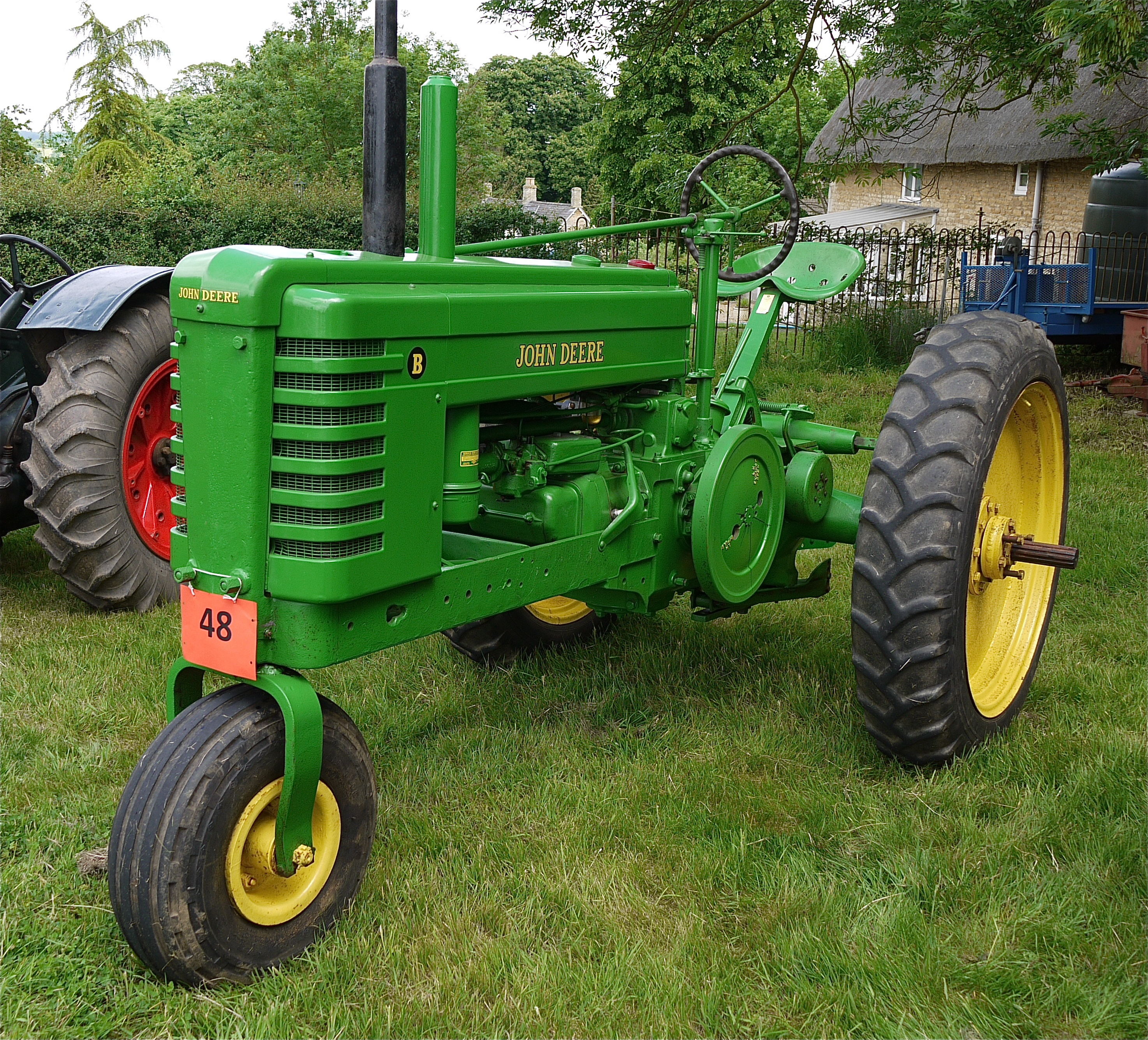 John Deere BN tractor (built 1943); Panasonic G1 14-45 Lens